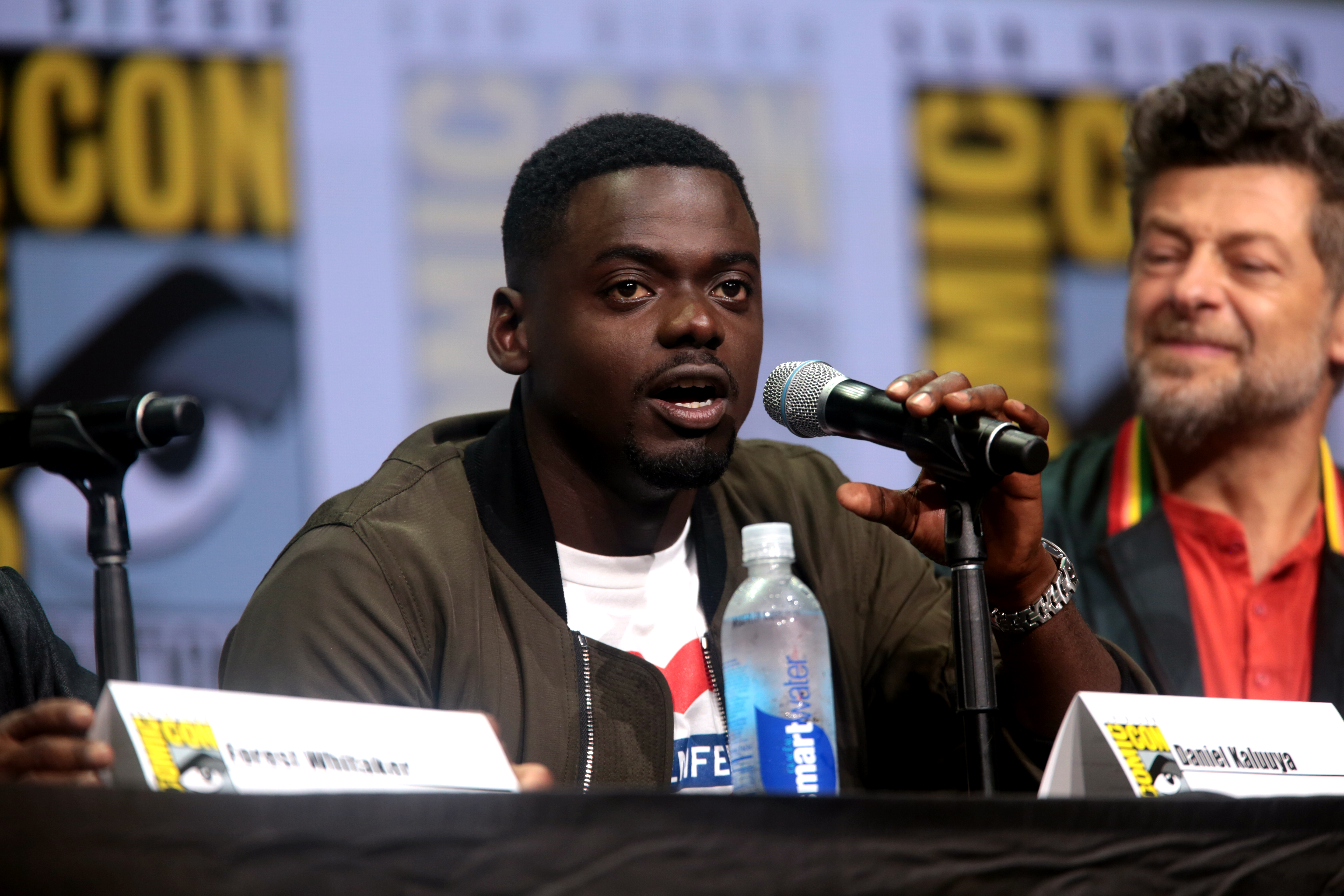 Daniel Kaluuya speaking at the 2017 San Diego Comic Con International, for "Black Panther", at the San Diego Convention Center in San Diego, California.